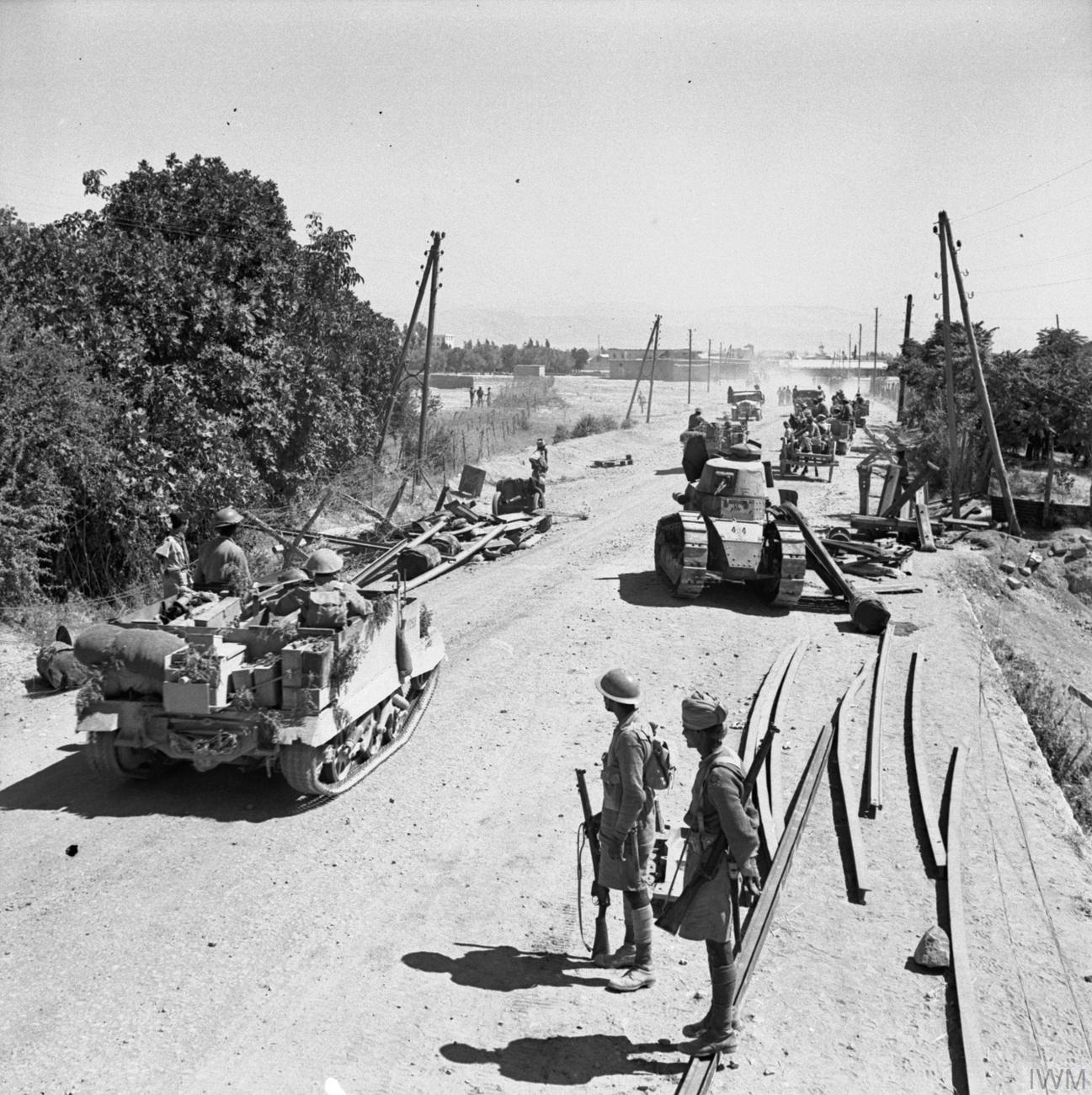 The British Army in the Middle East 1941 Bren gun carriers manned by Indian troops outside Damascus, 26 June 1941. Note the wrecked Vichy French FT17 tank on the right.